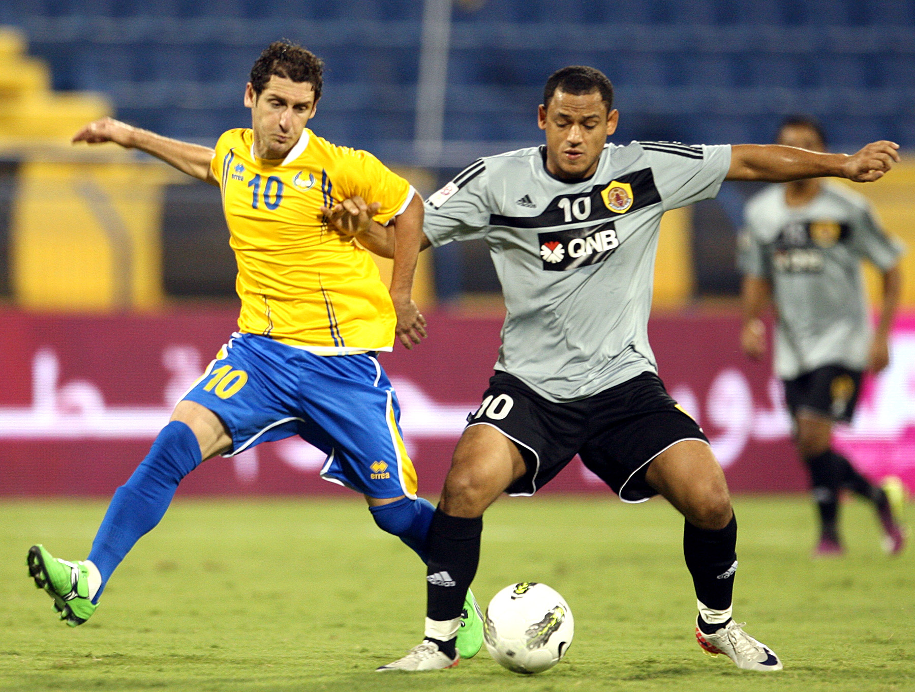 Al Gharafa's Mohammad Reza Khalatbari, left, and Qatar Sports Club's Luis Marcinho vie for the ball during their Qatar Stars League match.